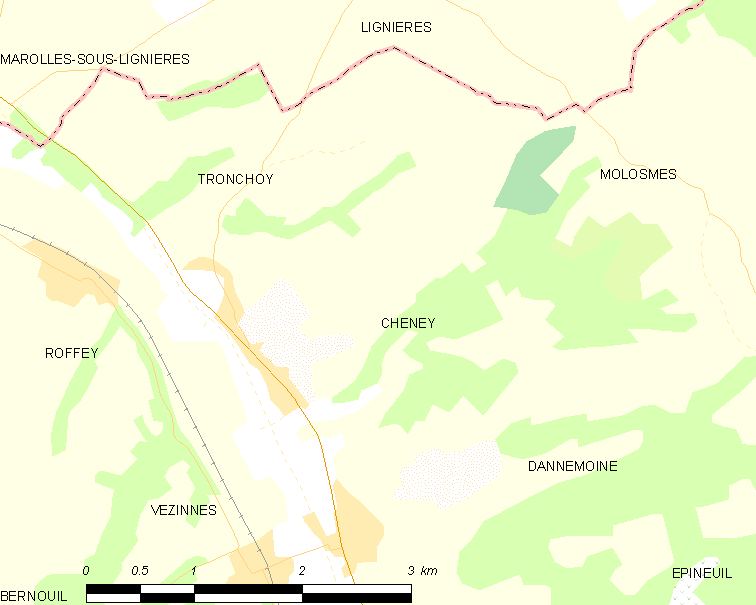 Map of French municipality Cheney